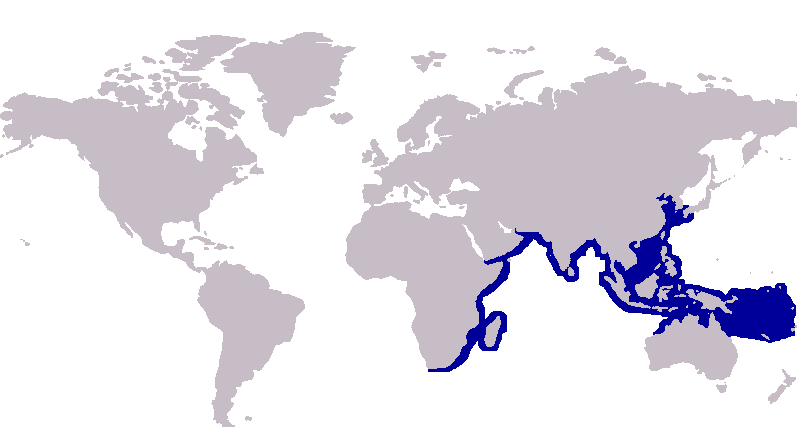 A map of the distibution of Carangoides malabaricus, the Malabar trevally. Map base from